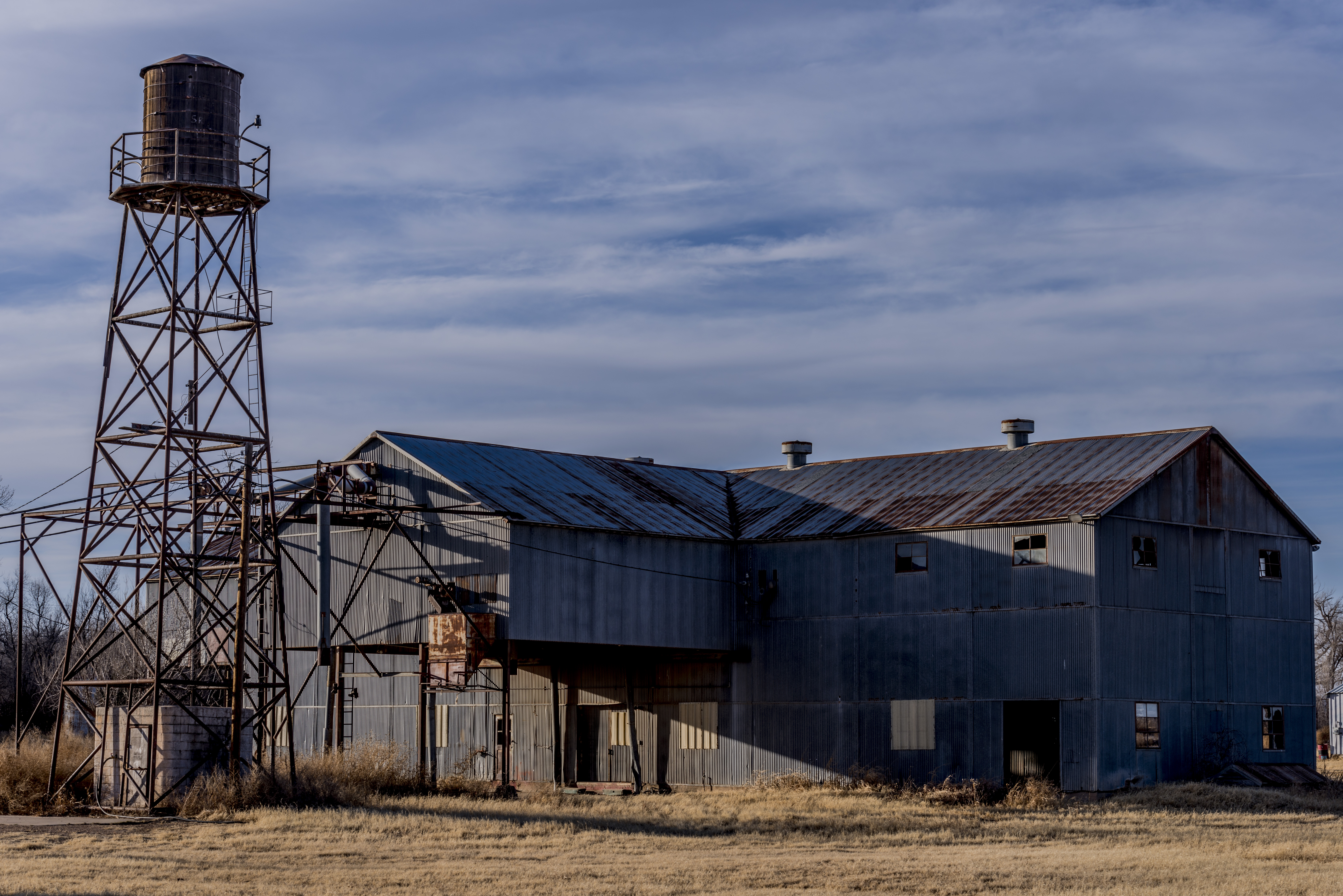 Photograph of the Afton Gin